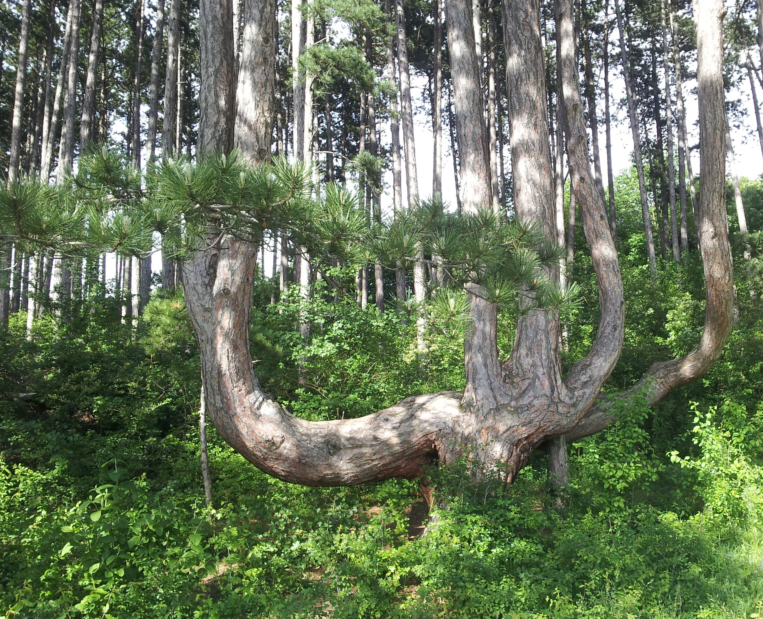 One in a group of trees with a chair-like shape, near St. Johann, Ternitz, Lower Austria.